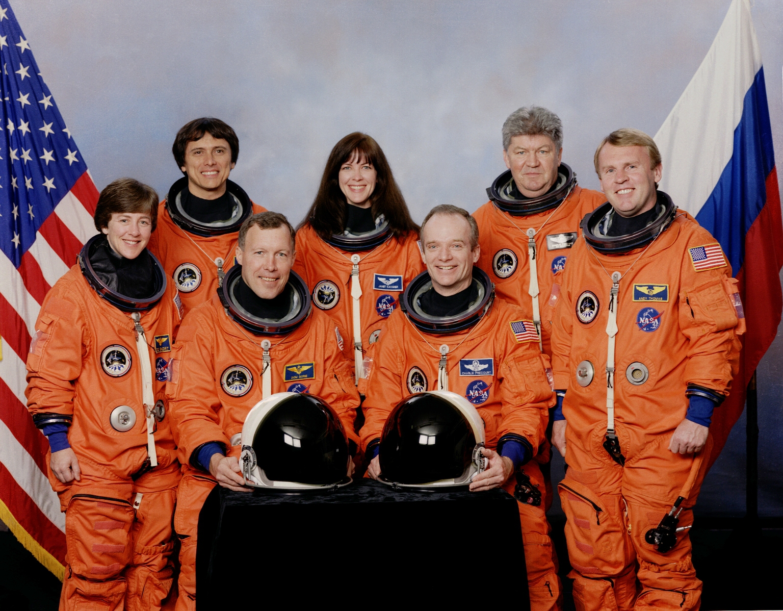 STS-91 CREW PORTRAIT (January 1998) --- The final crew members scheduled to visit Russia's Mir Space Station pose for a crew portrait during training at the Johnson Space Center (JSC). Pictured with their helmets in front are astronauts Dominic C. Gorie (left) and Charles J. Precourt. Others, from the left, are Wendy B. Lawrence, Franklin R. Chang-Diaz, Janet L. Kavandi, Valeriy V. Ryumin and Andrew S. W. Thomas. Precourt is mission commander, and Gorie, pilot, for Discovery's summer 1998 mission to Mir. Thomas, who will have been serving as a guest researcher on Mir since late January, will return to Earth with the crew members. Lawrence, Chang-Diaz, Kavandi and Ryumin are all mission specialists. Ryumin represents the Russian Space Agency (RSA). Discovery will carry the single module version of Spacehab for the scheduled nine-day mission.